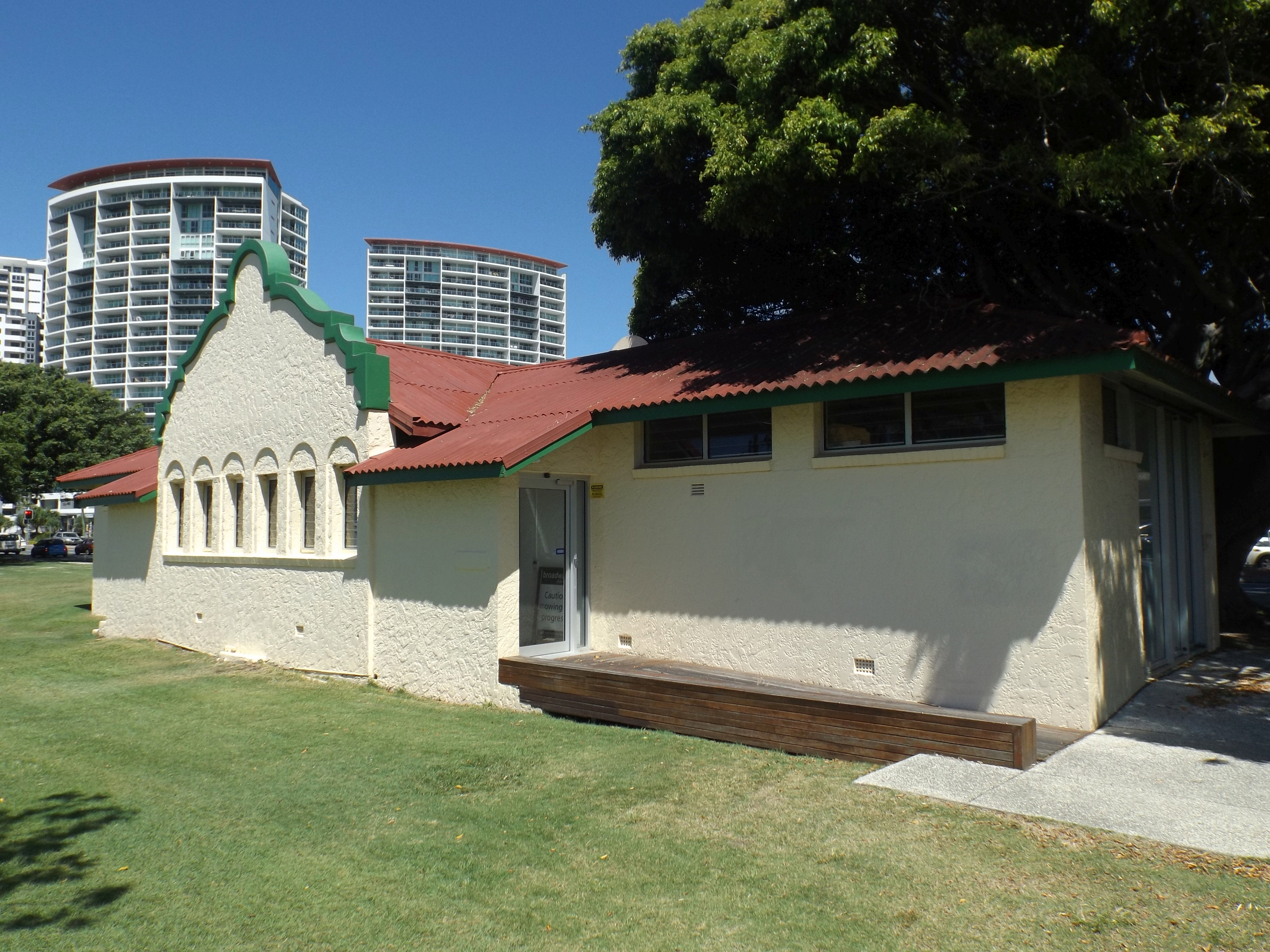 Photo of the Southport Bathing Pavilion at Southport, Gold Coast City, Queensland, Australia.